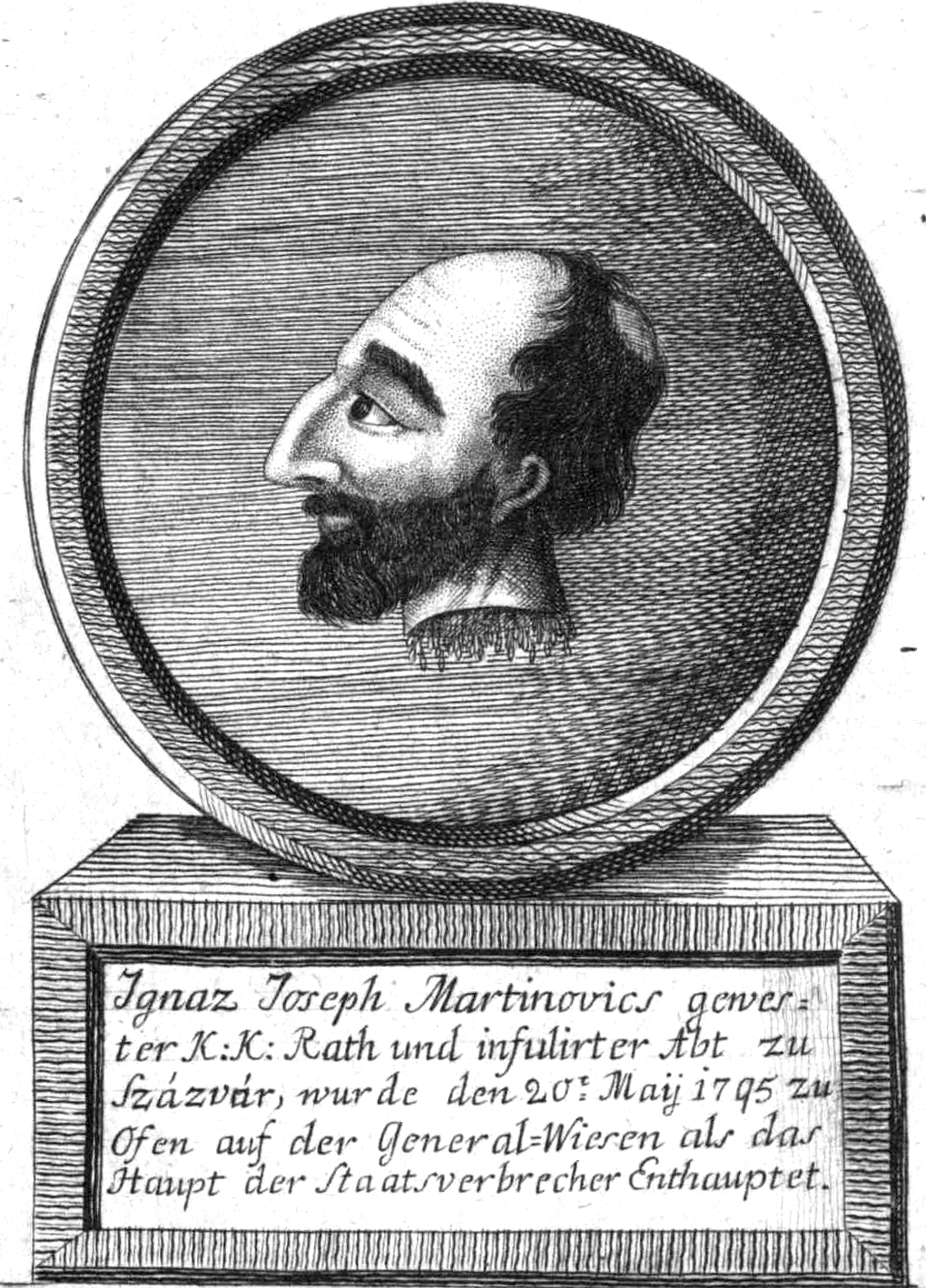 Martinovics, Ignaz Josef (1755 - 1795)